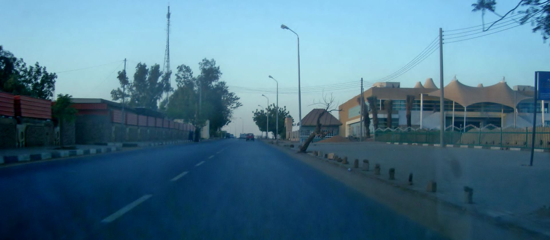 Montaga Omdrman Almorda street - Omudrman - Sudan